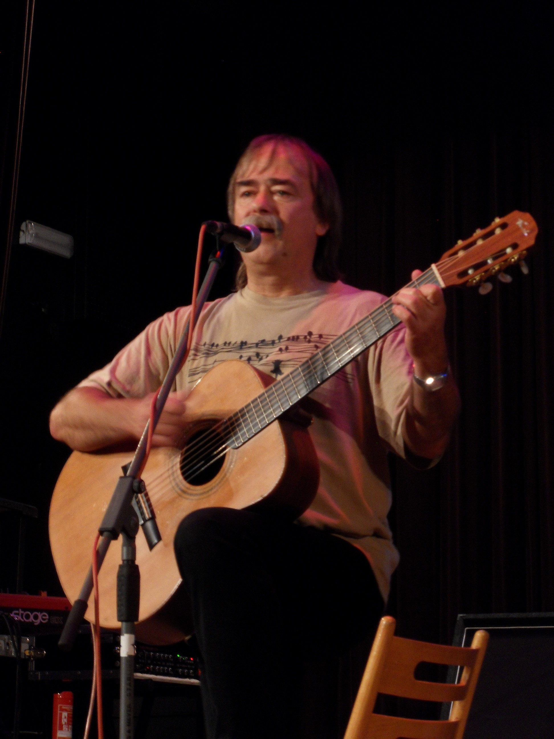 Czech singer-songwriter Slávek Janoušek, Brno, Czech Republic